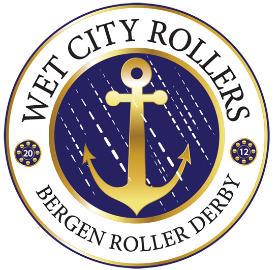 Logo Wet City Rollers